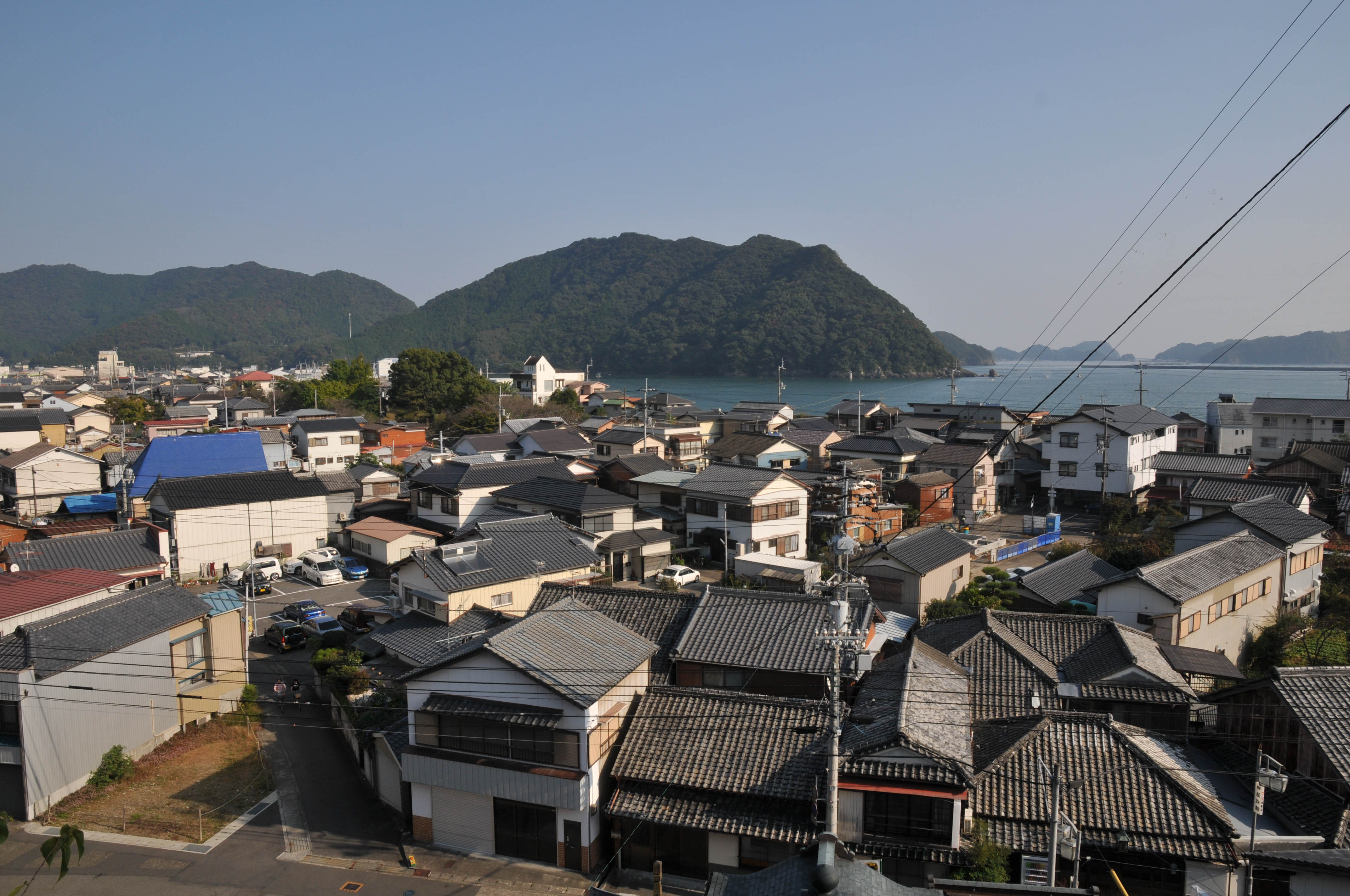 Susaki city view from Daizen-ji